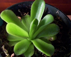 An image of a Mexican butterwort, Pinguicula agnata, from a personal collection. There are many varieties of Pinguicula agnata with different shapes and sizes. This particular plant is thought to be two years old, most likely grown from a leaf cutting. It has light bluish purple flowers 3/4 of a centimeter across.